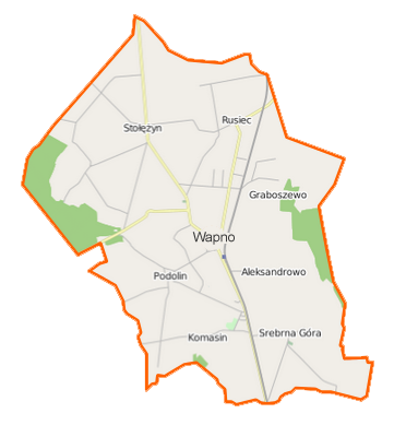 Map of Gmina Wapno, Poland This map of Wapno (gmina) was created from OpenStreetMap project data, collected by the community. This map may be incomplete, and may contain errors. Don't rely solely on it for navigation.